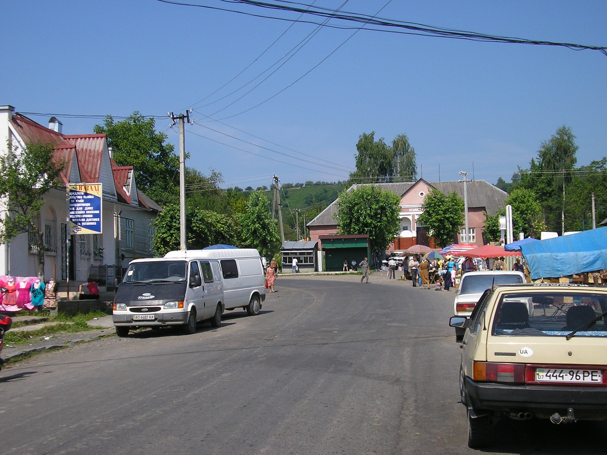 Zolotaryovo